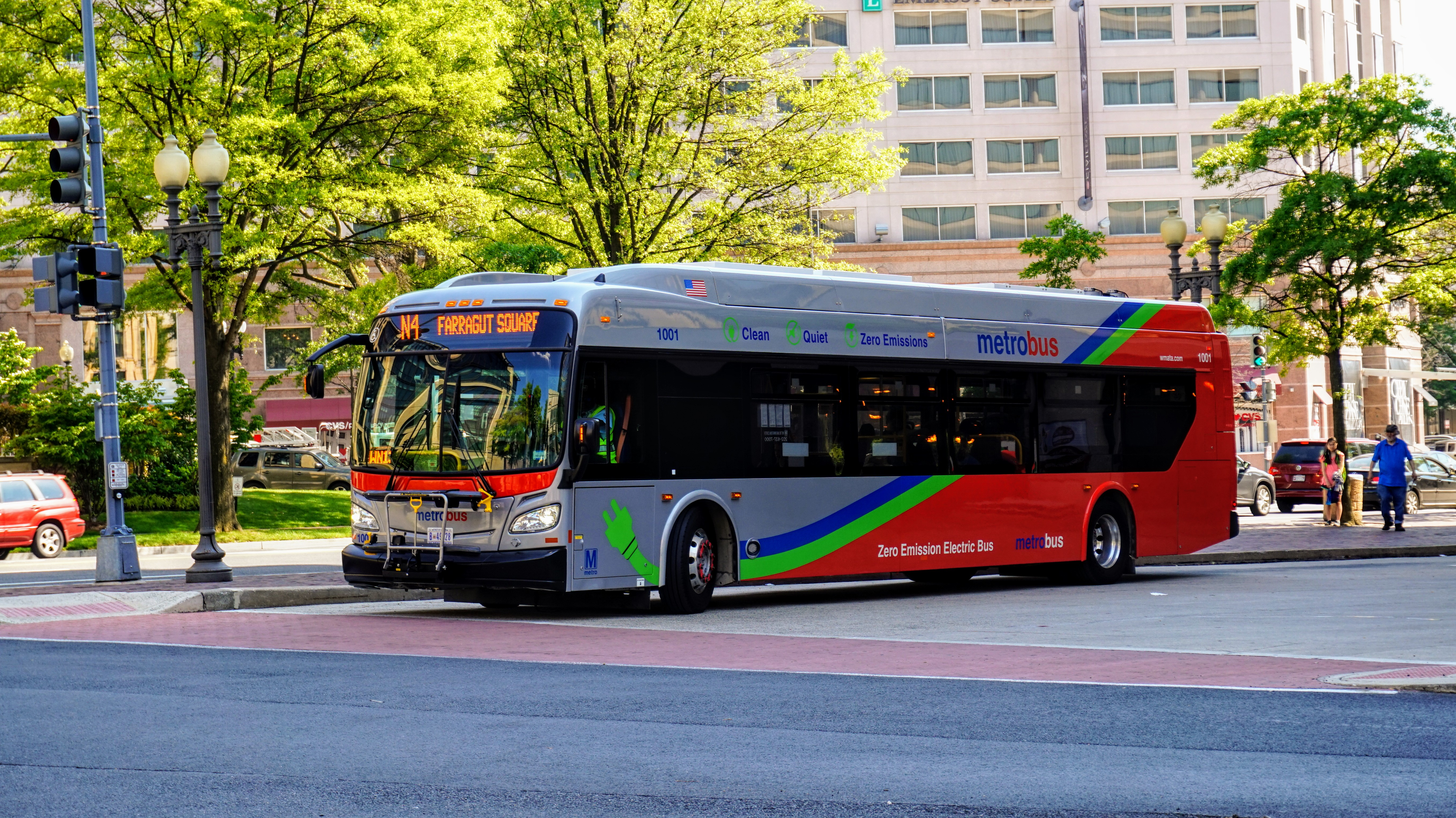 Here WMATA first ever all electric bus an New Flyer Xcelsior XE40